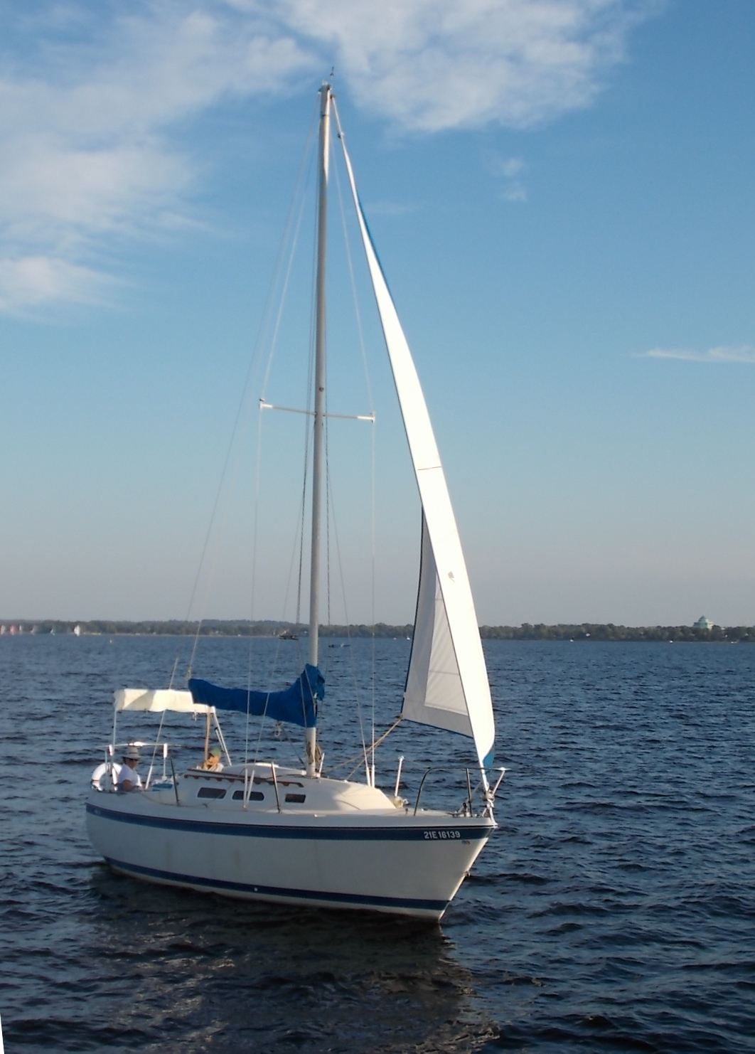 O'Day 25 sailboat on Lac Deschênes, part of the Ottawa River, Ottawa, Ontario, Canada